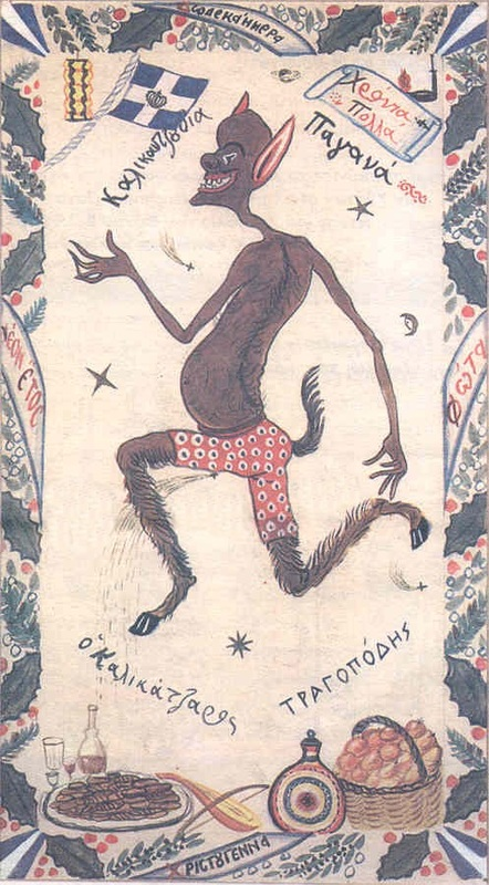 A goat footed Kallikatzaros